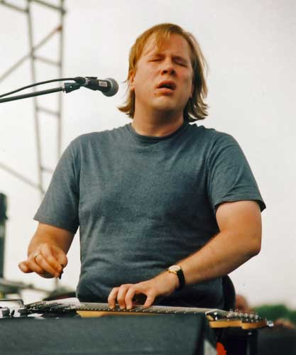 Jeff Healey at the Long Beach Blues Festival